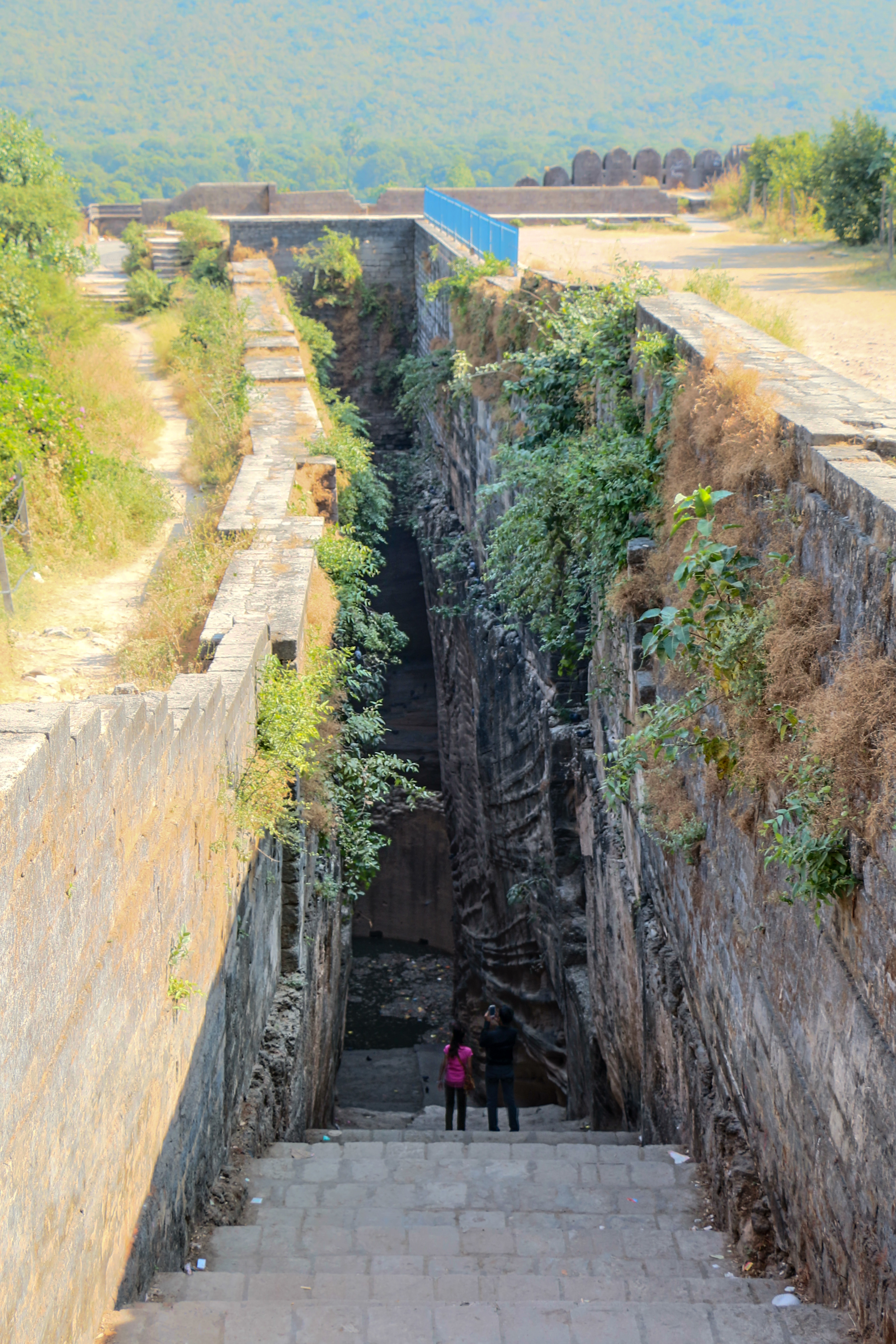 Adi Kadi Vav, Uperkot Fort, Junagadh, India